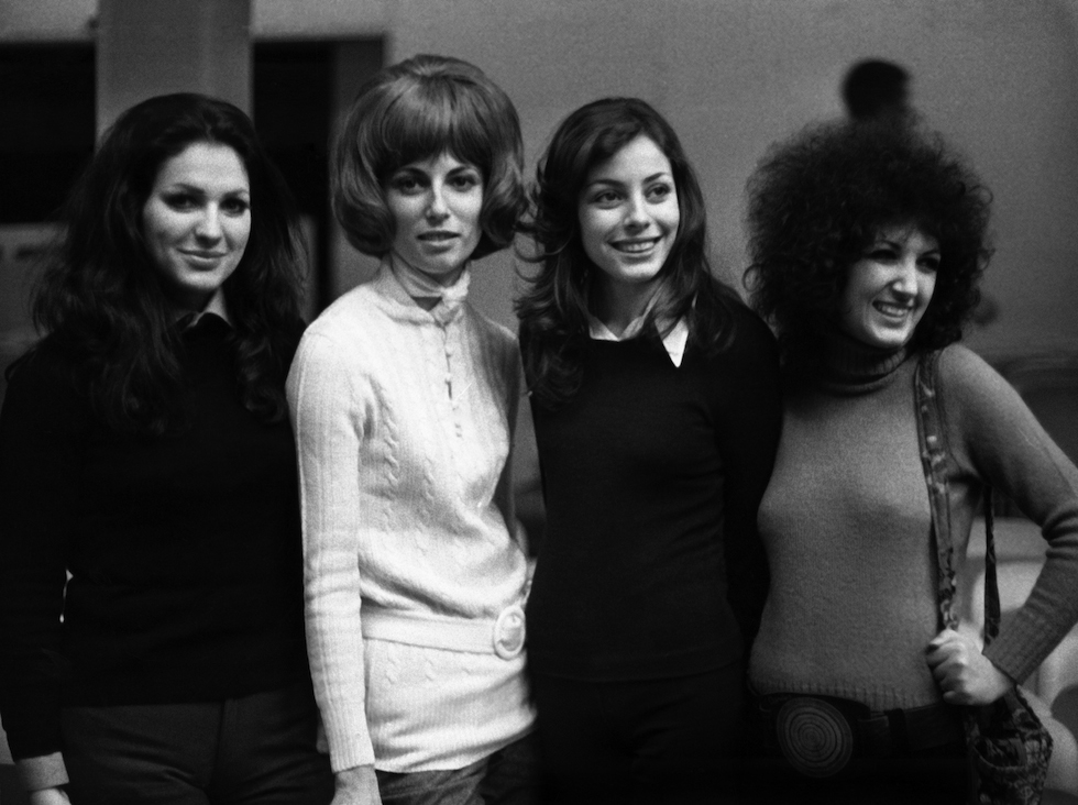 Four female Italian vocalists at the 1972 Sanremo Music Festival: from left to right Marisa Sacchetto (then 19 old), Angelica (stage name of Donatella Farinelli, then 24), Alice (stage name of Carla Bissi, then 17) and Marcella (Marcella Bella, then 19). Especially the latest two had a long lasting career that spanned four decades; Marisa Sacchetto turned to acting and hasn't recorded anything since 1985, and Angelica turned down singing after her marriage in 1973; she runs a small business in her native town ever since.